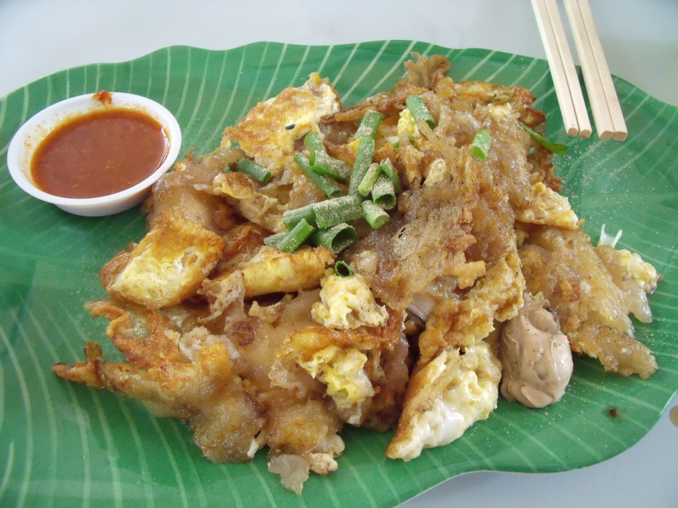 Fried oyster served in West Coast, Singapore.